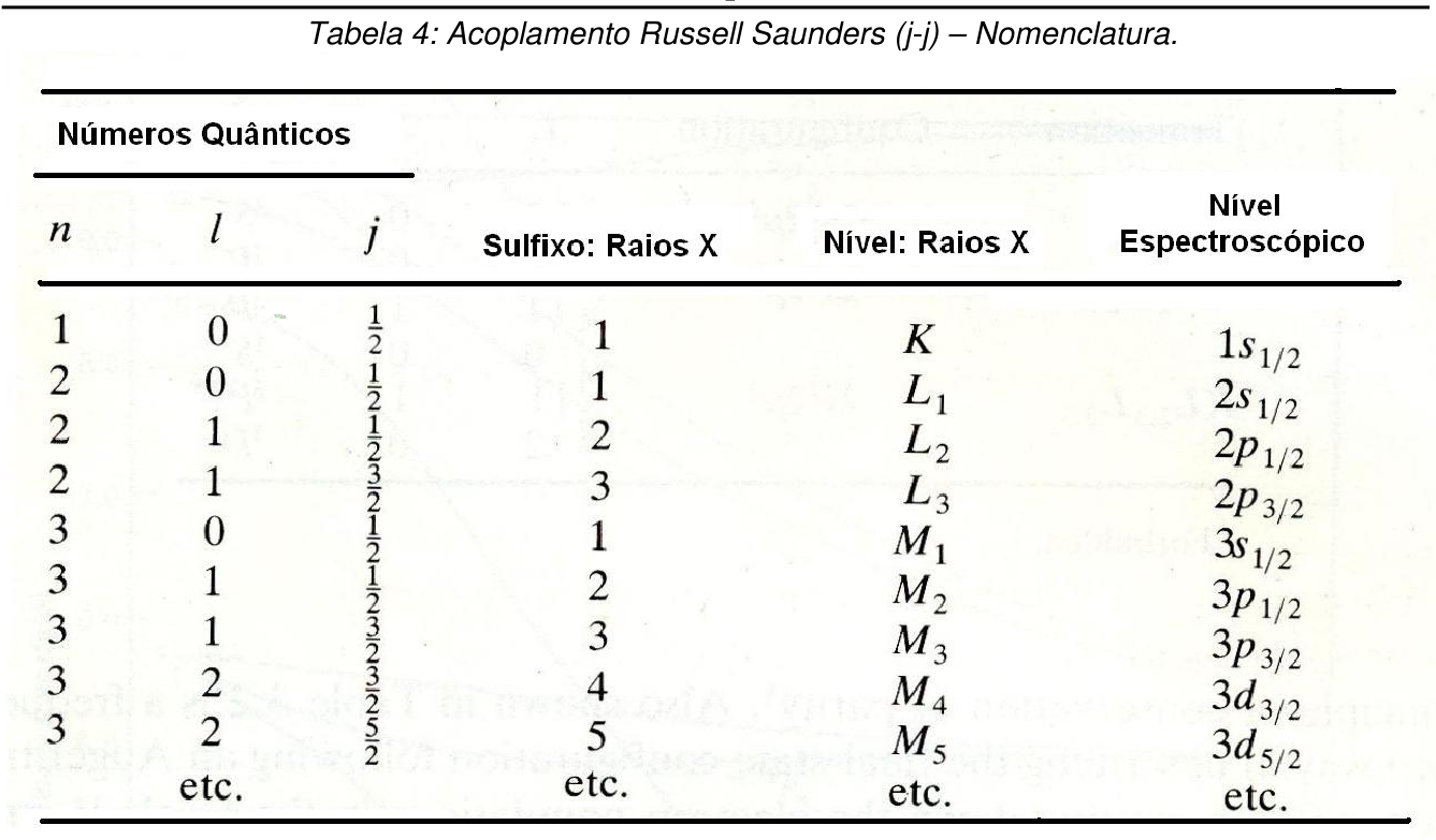 Russell Saunders Table.